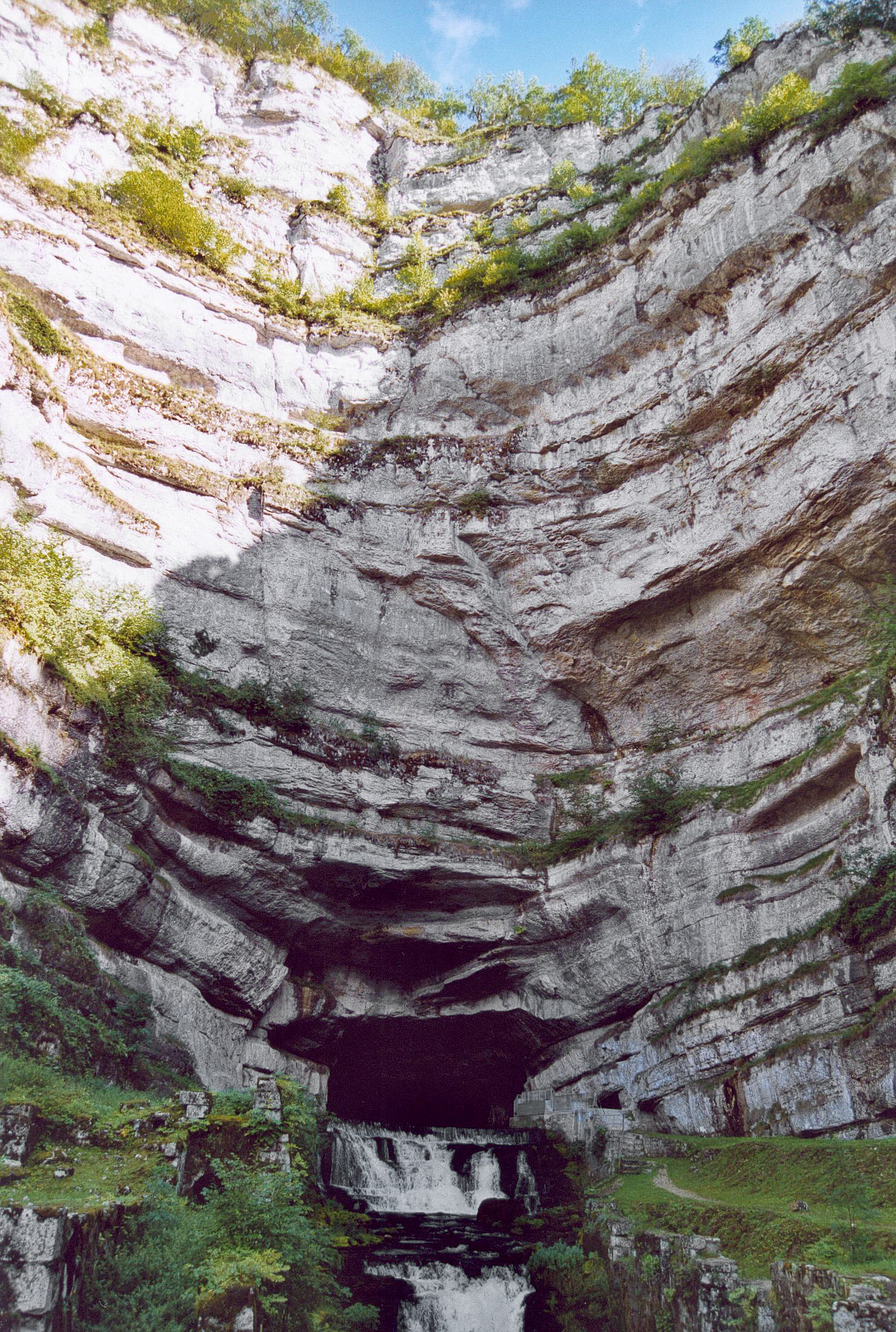 The karst spring of the Loue eroded a deep cavity into the Jura's limestonebeds. Subterranean waters of the Doubs near Pontarlier resurge here.